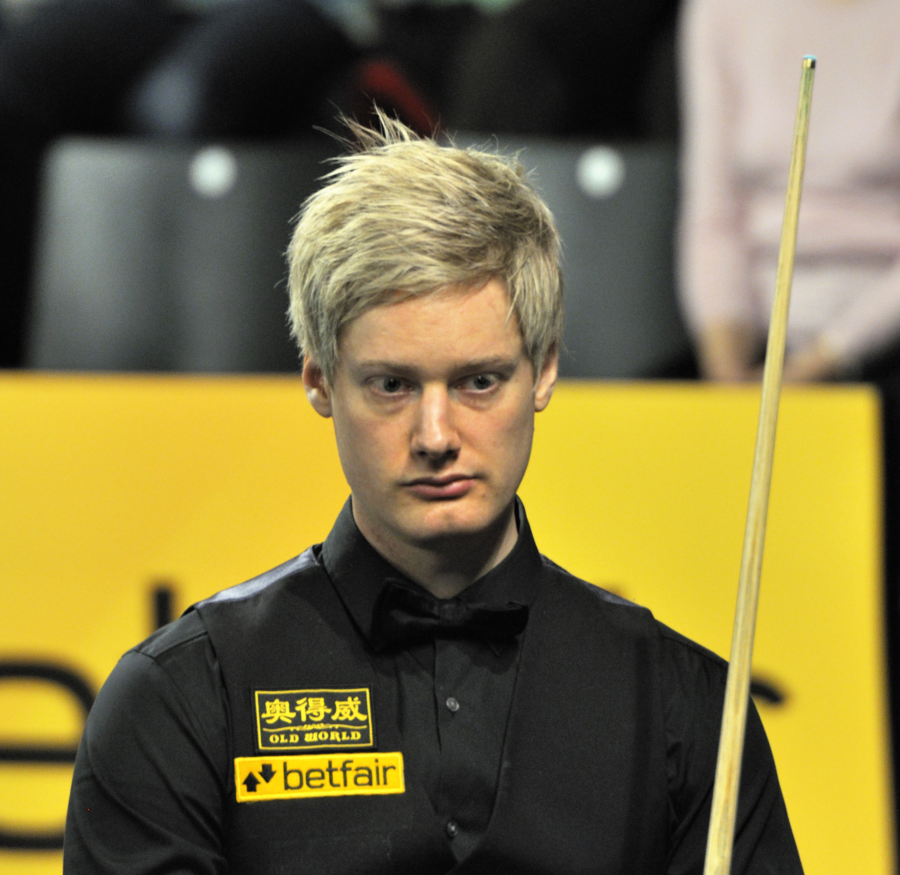 Picture taken in Berlin during the Snooker German Masters in 2013. Neil Robertson.